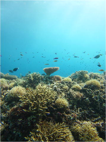 The image was taken on a Catlin Seaview Survey expedition to Tubbataha Natural Park of the Philippine waters of the Sulu Sea in the heart of the Coral Triangle. A young, tabulate Acroporid coral can be seen reaching its branches toward the sun to fuel its Symbiodinium algal symbionts with a plethora of reef fishes in the background. It is the marine equivalent of a young tree shooting skyward to fulfil its ecological role in a forest. Corals, branching Acroporids especially, contribute greatly to habitat complexity, or rugosity, of reefs increasing the microhabitats for other reef creatures.”